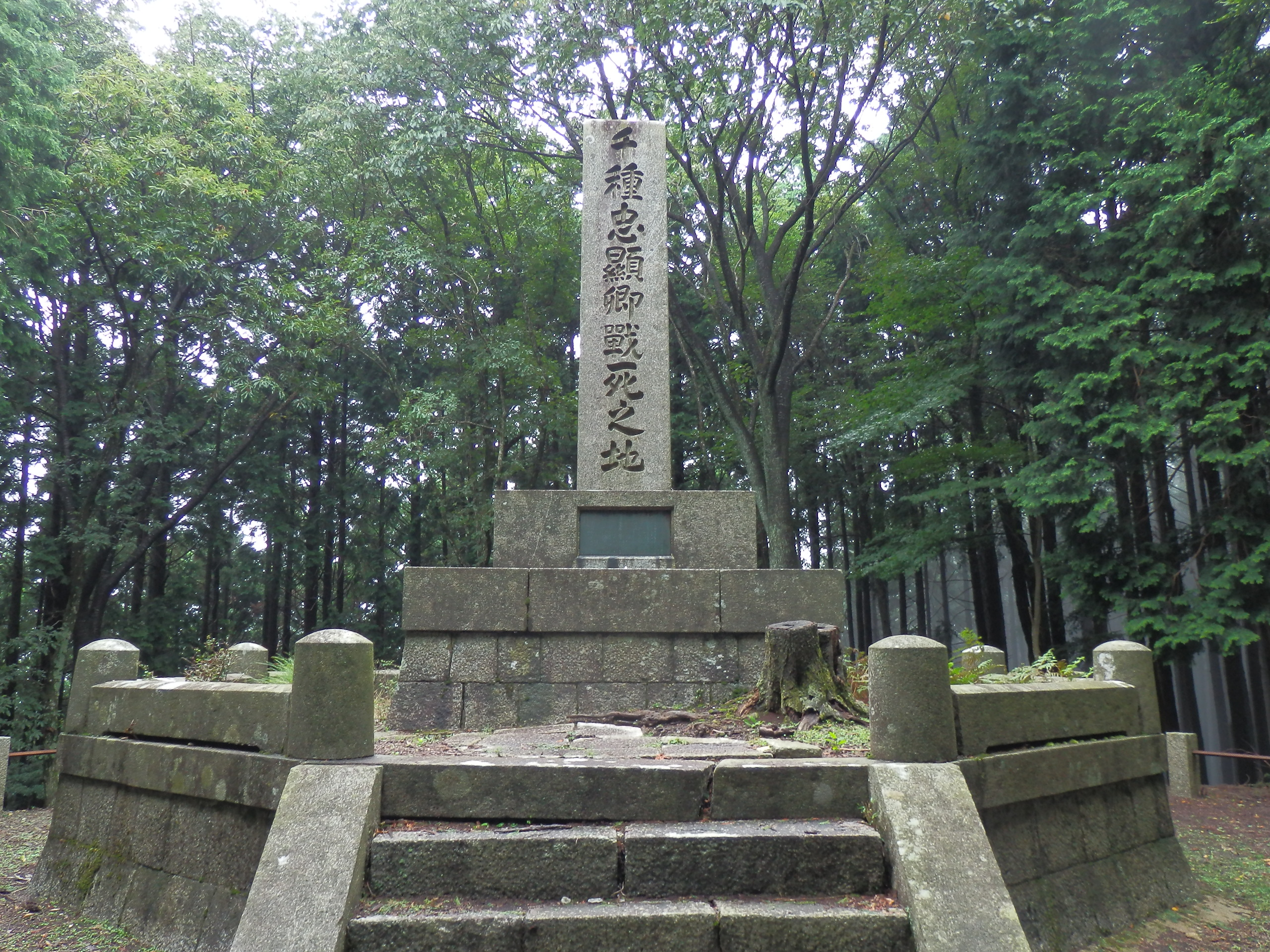 The place of Chigusa Tadaaki's death in battle, in Sakyō-ku, Kyoto, Kyoto Prefecture, Japan